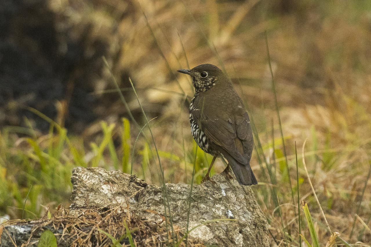 Plain-backed Thrush - Eaglenest - India_FJ0A9296